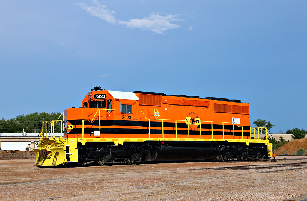 The paint on this Rapid City, Pierre & Eastern locomotive was so new that you could smell it.